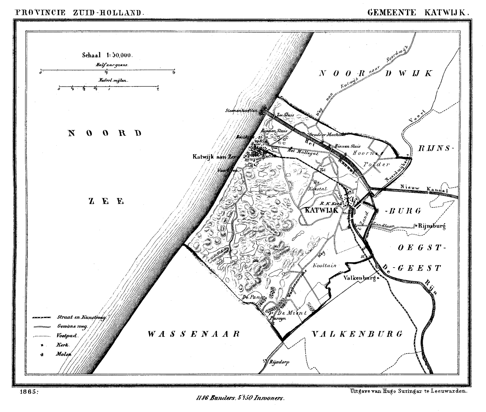 Historic map of Katwijk, the Netherlands